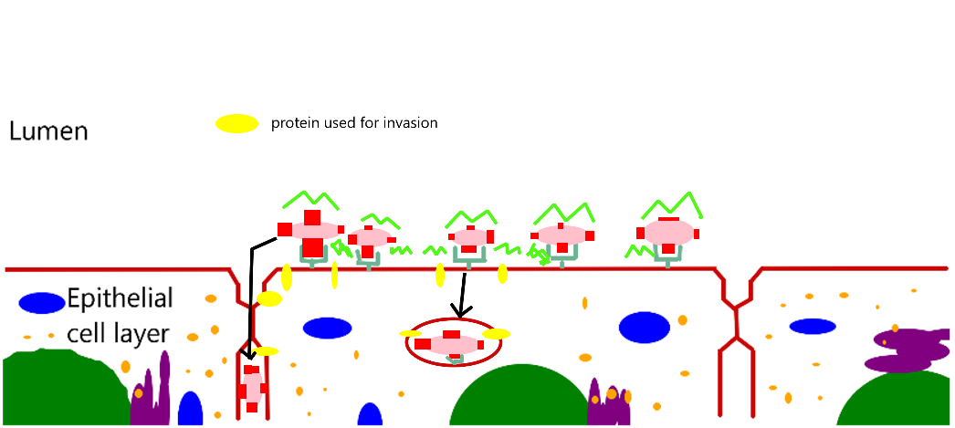 in name